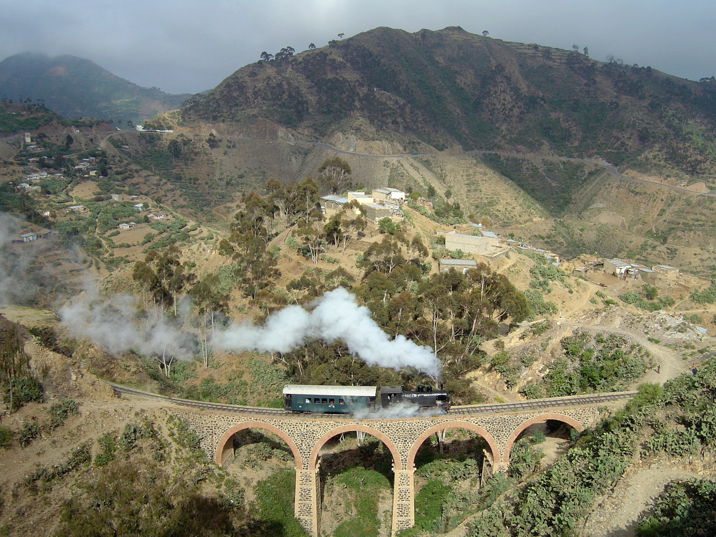 Eritrean Railway, showing mountainous terrain traversed between Arbaroba and Asmara.